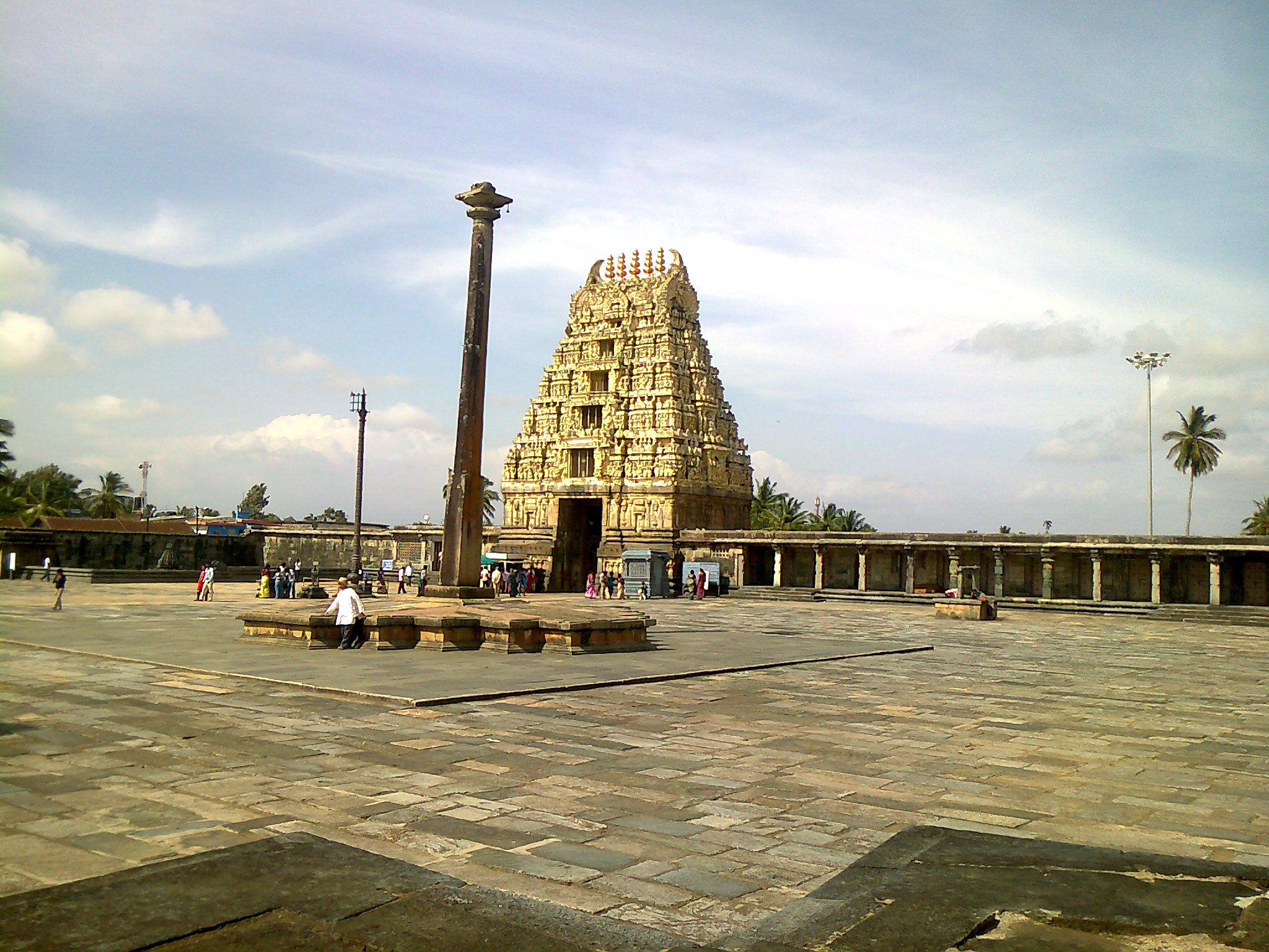 Belur, Chikmagalur District, India.